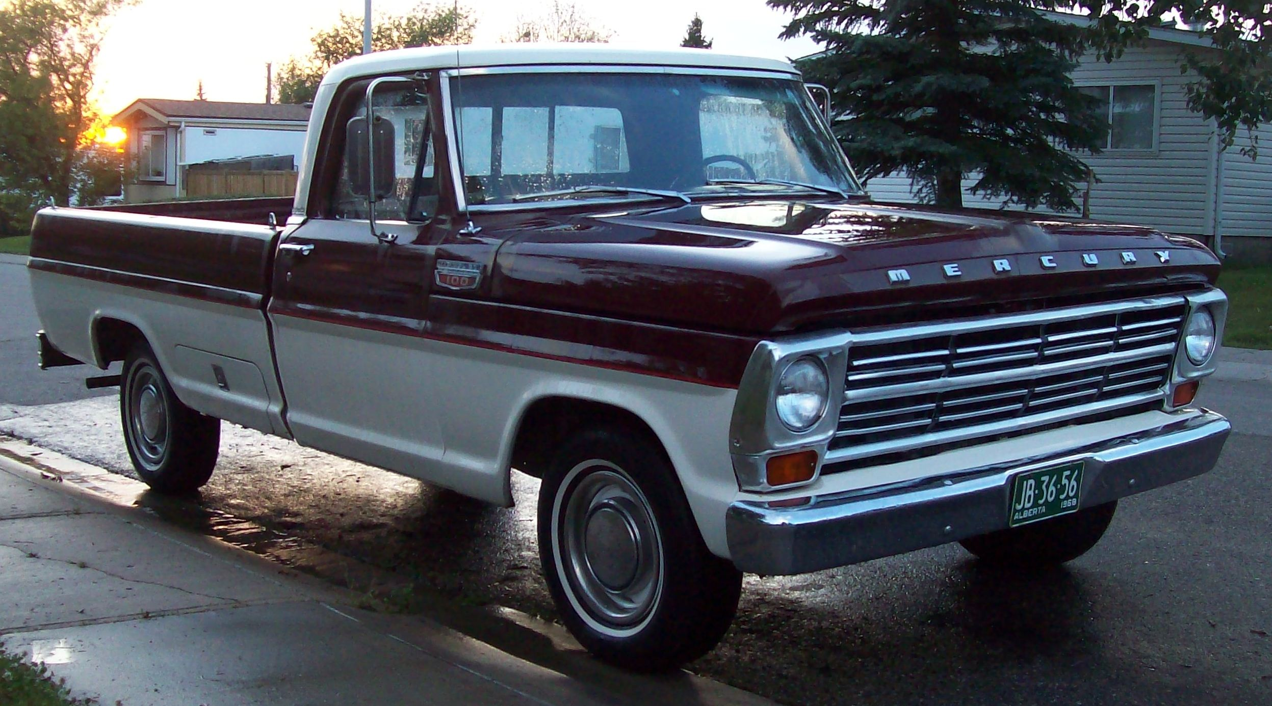 1968 FORD MERCURY M100 TRUCK. MERCURY TRUCKS WERE PRODUCED FOR THE CANADIAN MARKET AND AS SUCH ARE QUITE RARE. THIS 1968 M100 FEATURES A VERY RARE OPTION OF A BOXSIDE TOOLBOX. 1968 WAS THE LAST YEAR FOR MERCURY TRUCKS.